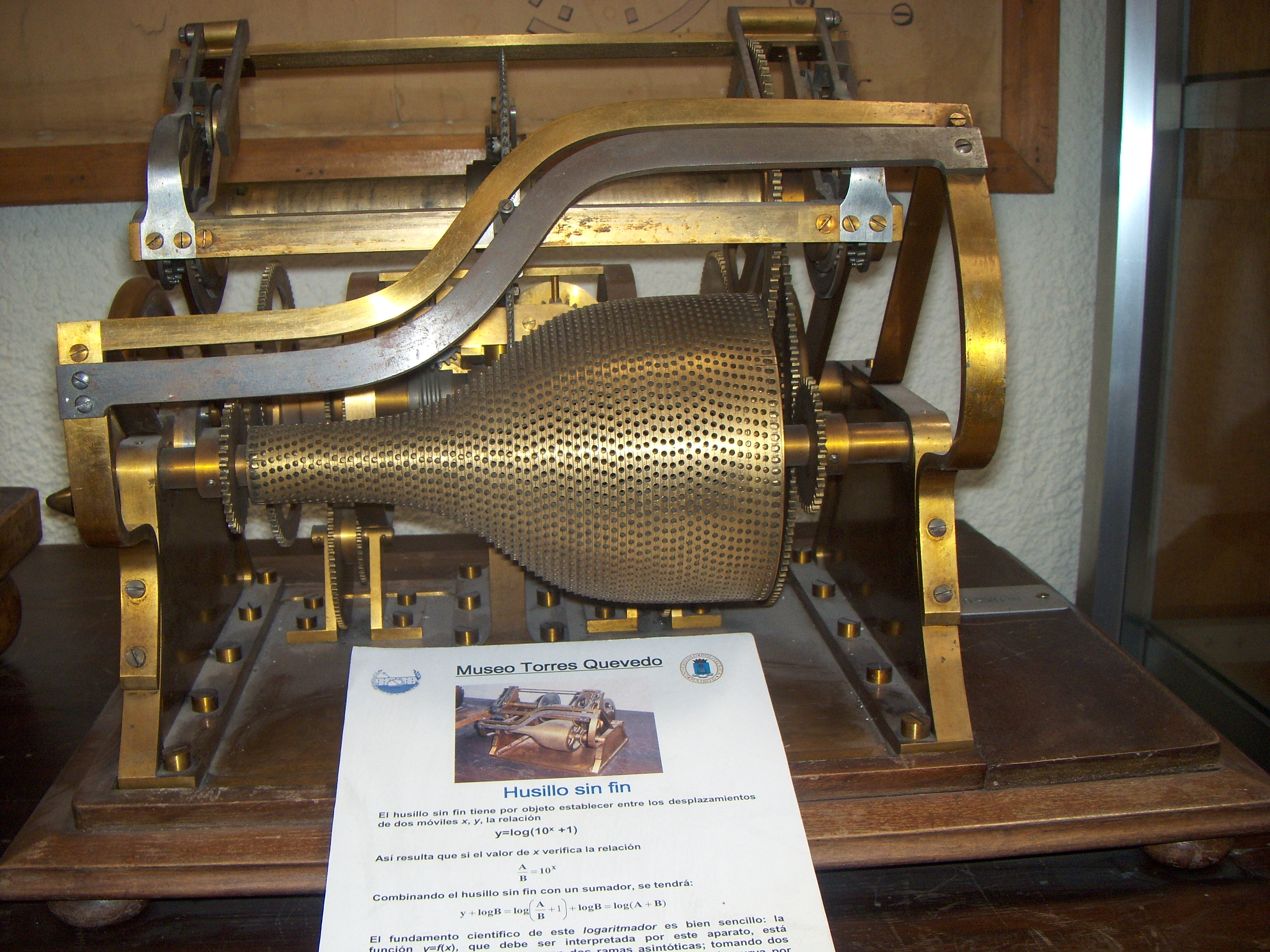 Screw auger of Leonardo Torres Quevedo at the Civil Engineering Faculty museum in Madrid